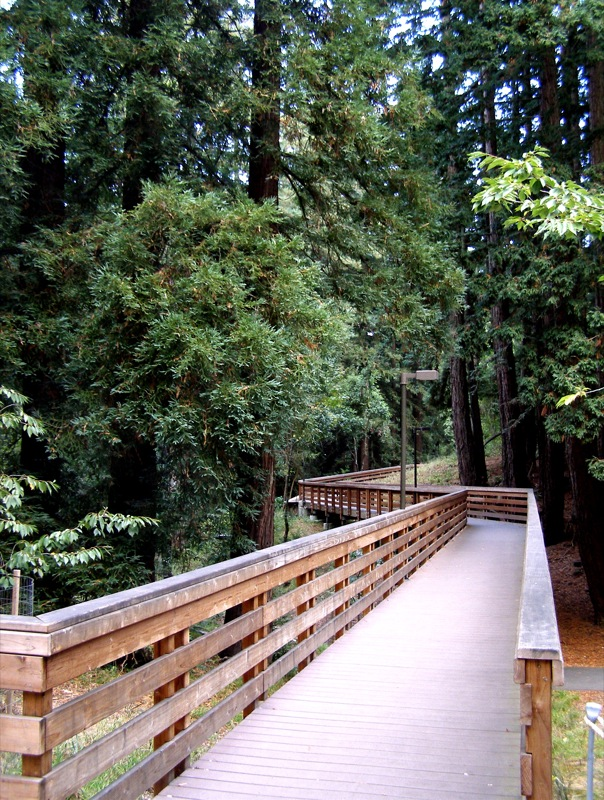 A viaduct across a footpath at UCSC. It is located between McHenry Library and the Hahn Student Services Bridge.